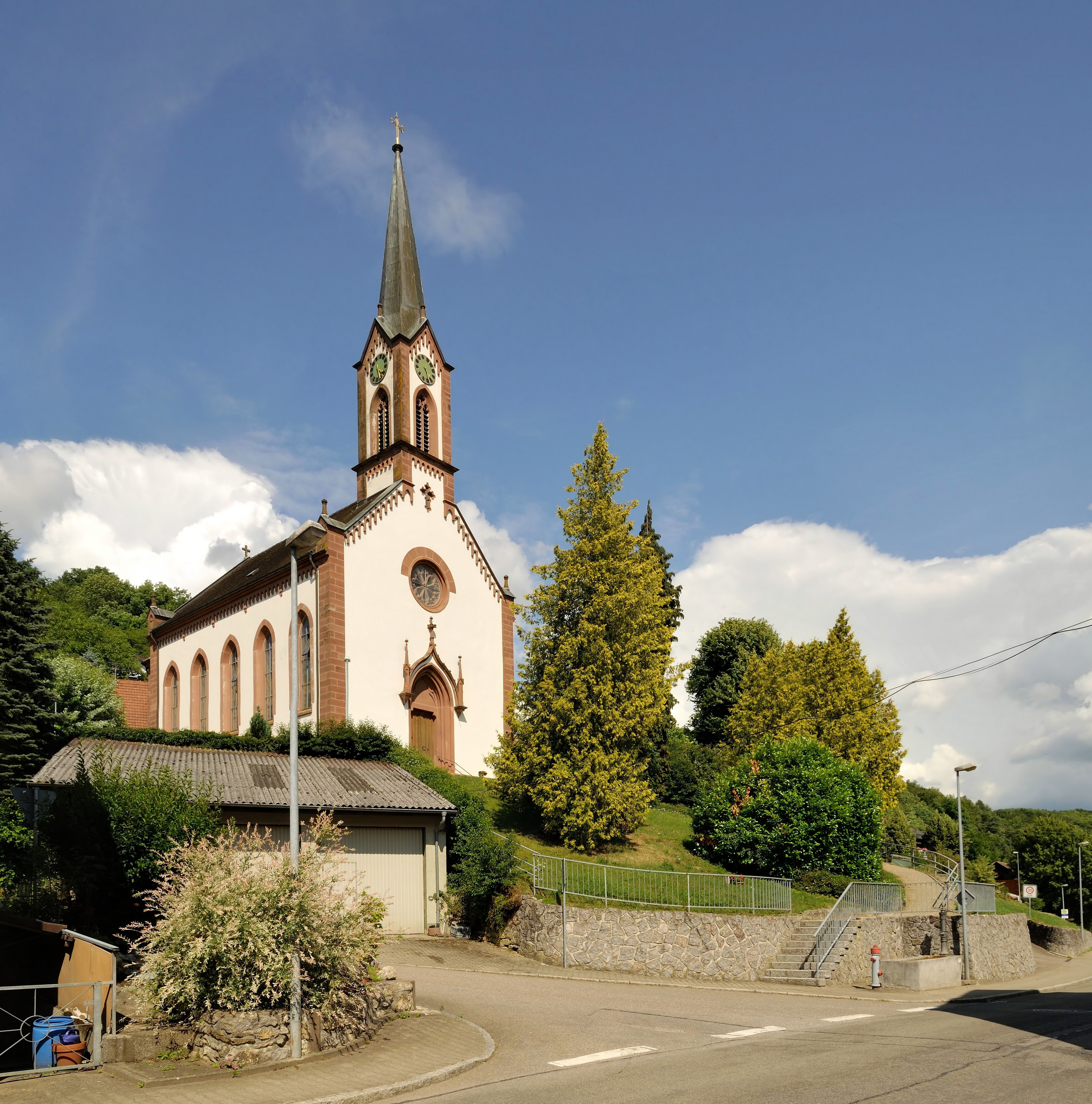 Dossenbach: Protestant Church